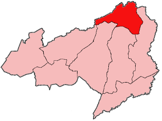 Map of Bong County, Liberia showing Zota District; created with the GIMP. Made by User:Acntx.